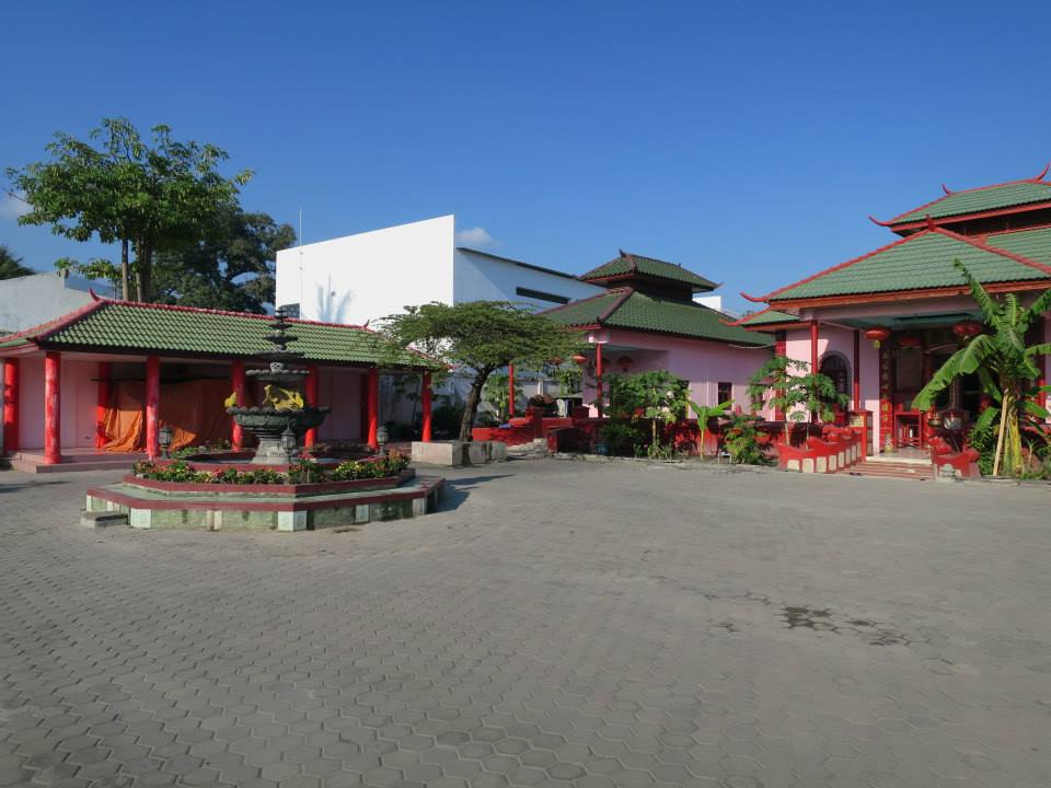 Chinese temple in Dili